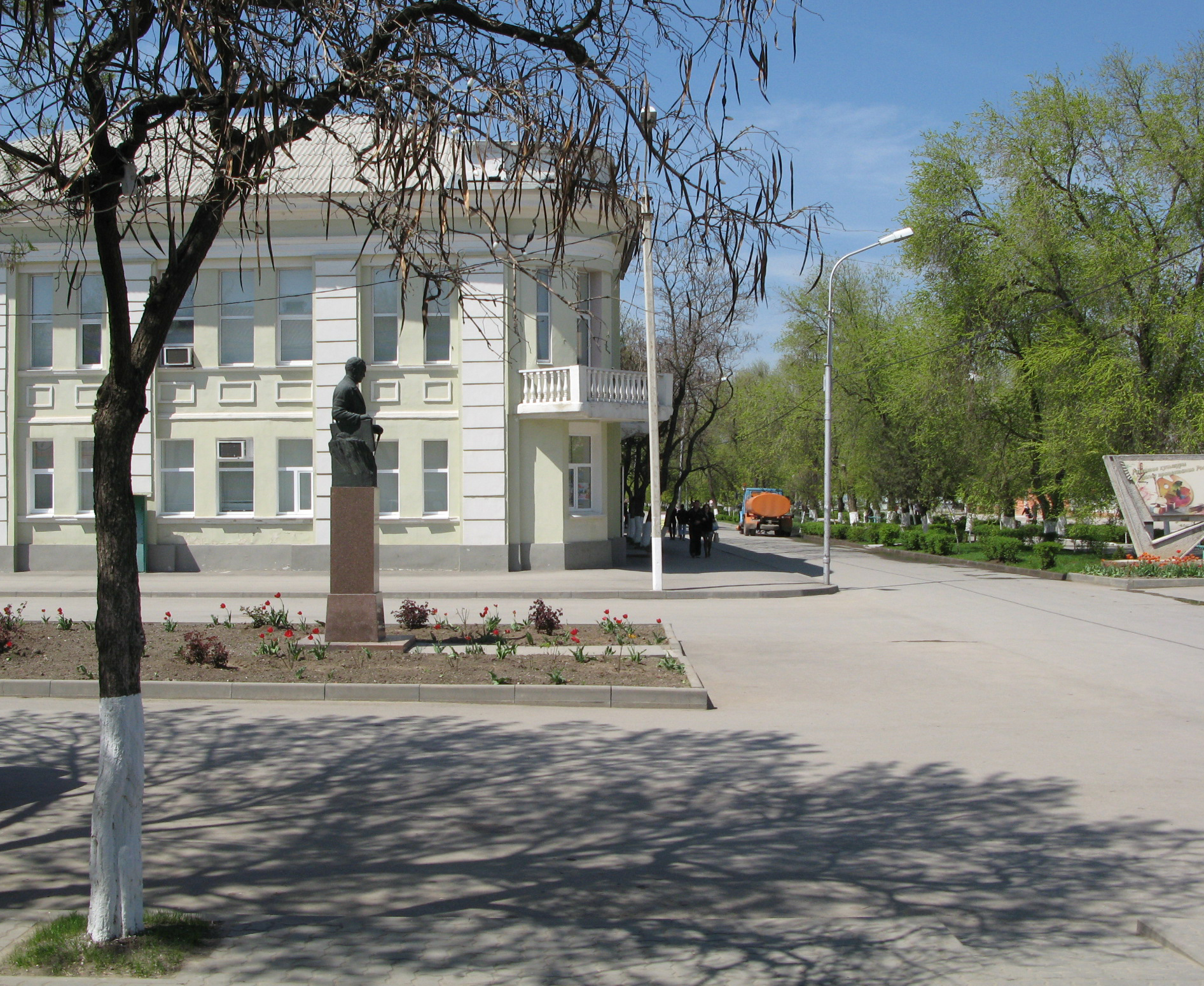 Salsk Art Museum named after V.K.Nechitailo, monument to V.K.Nechitailo